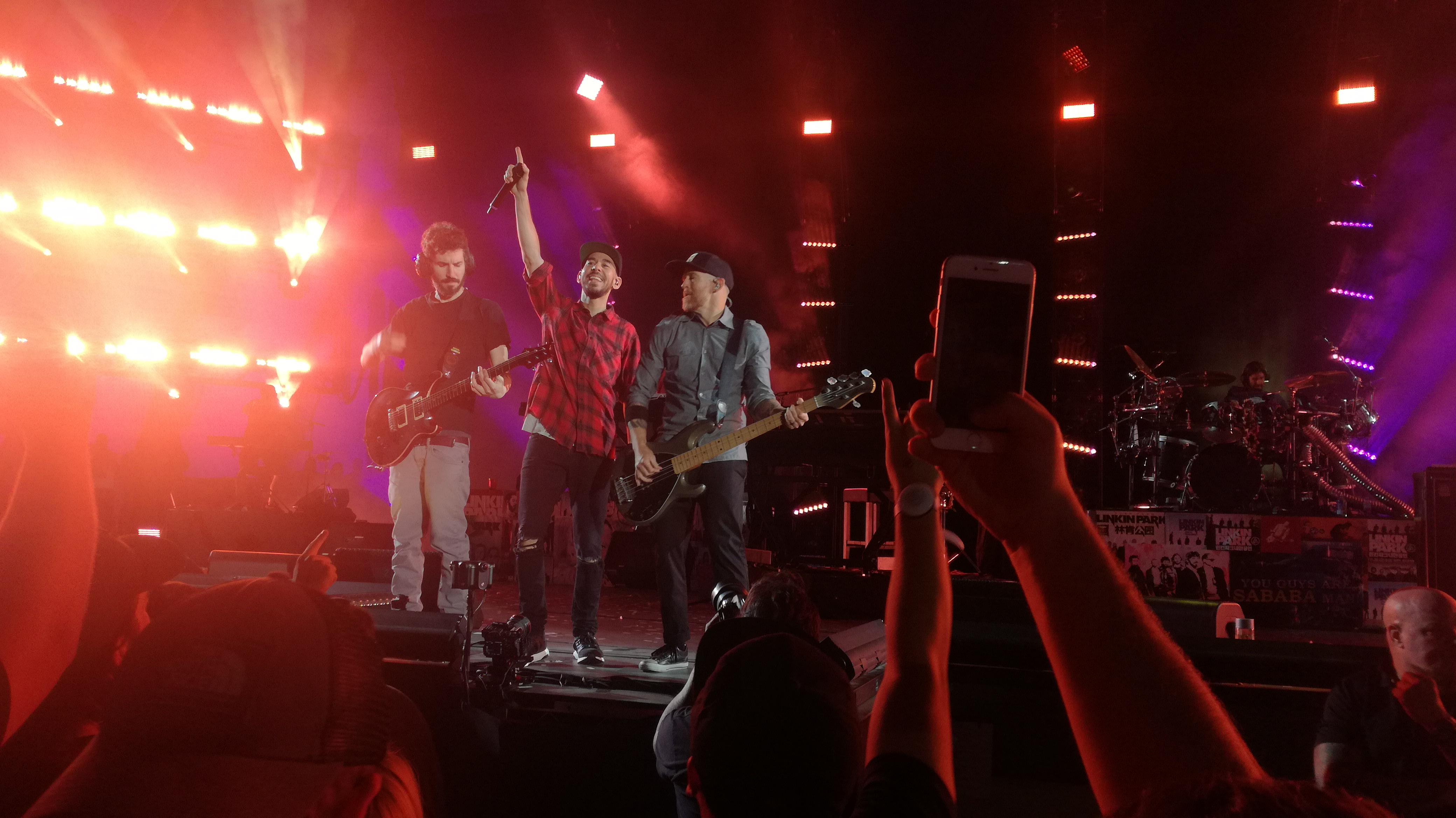 Linkin Park during their performance at Hollywood Bowl, Los Angeles, CA, on October 27th, 2017.